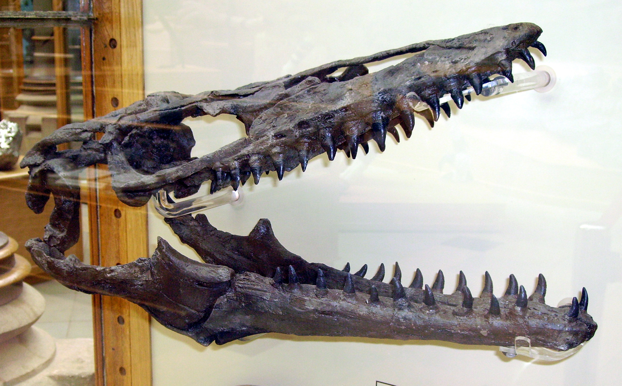 Plioplatecarpus primaevus skull, Oxford University Museum of Natural History .